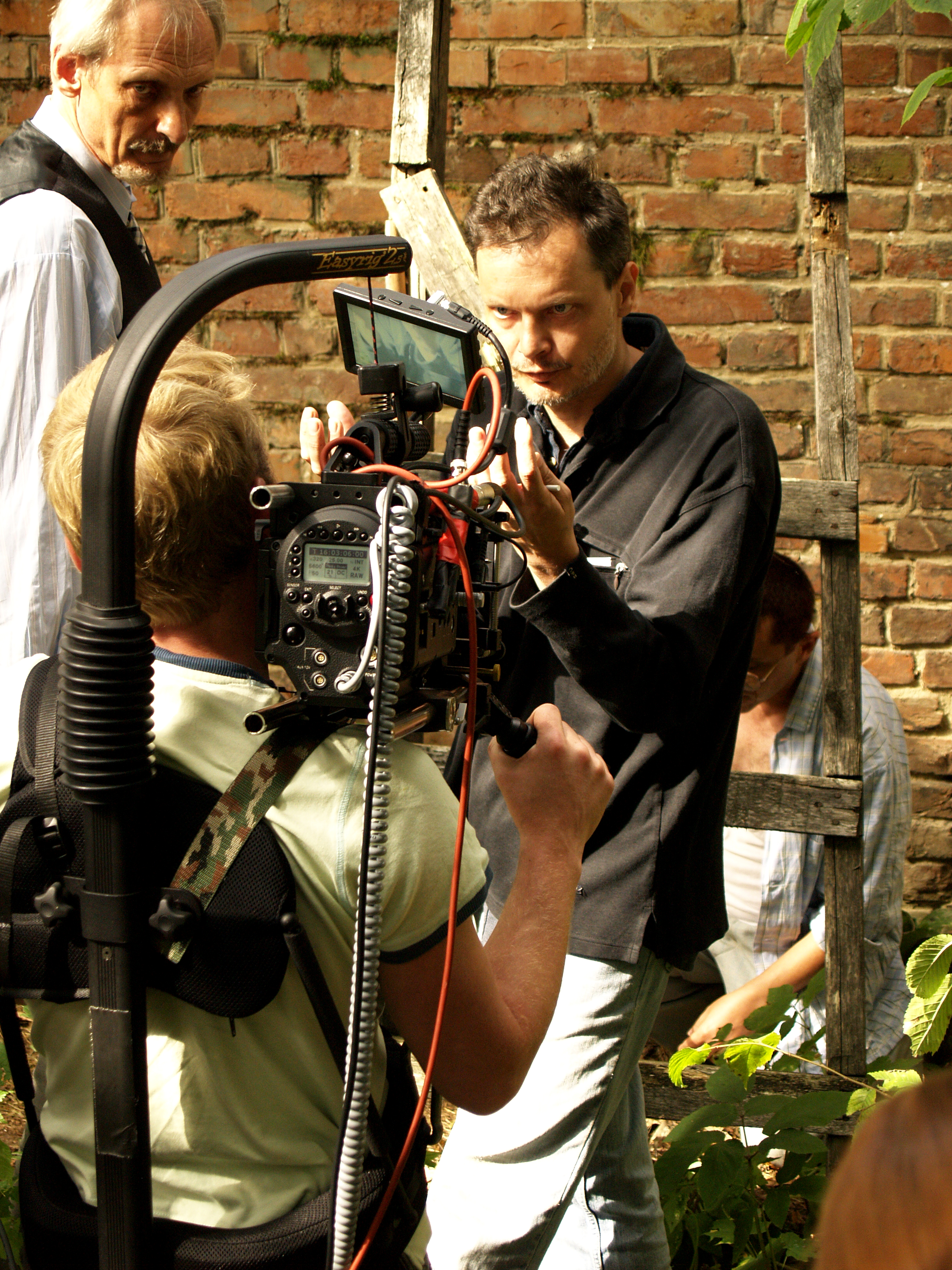 Horodok (Ukraine). Ihor Podolchak(director) and Mykola Yefymenko (DoP).